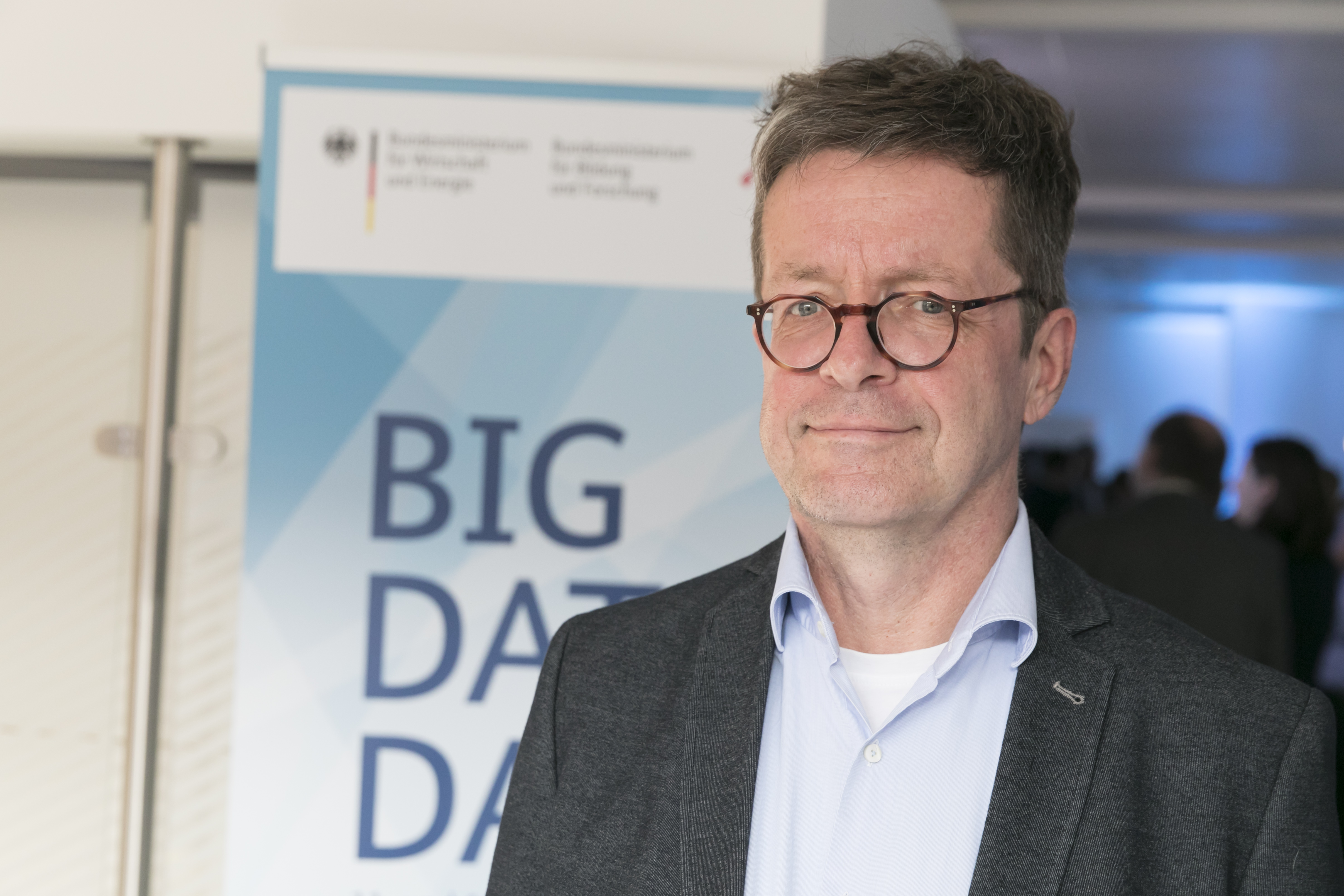 Prof. Dr. Thomas Hoeren at the Big Data Days, Smart Data Forum 2018. DEU, Berlin, 11.04.2018, Picture taken by Wolfgang Borrs